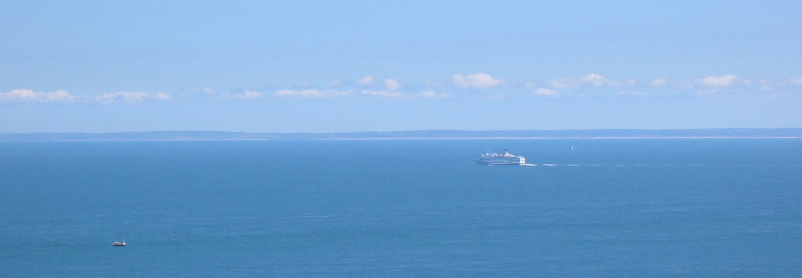 Cotentin coast seen from north coast of Jersey